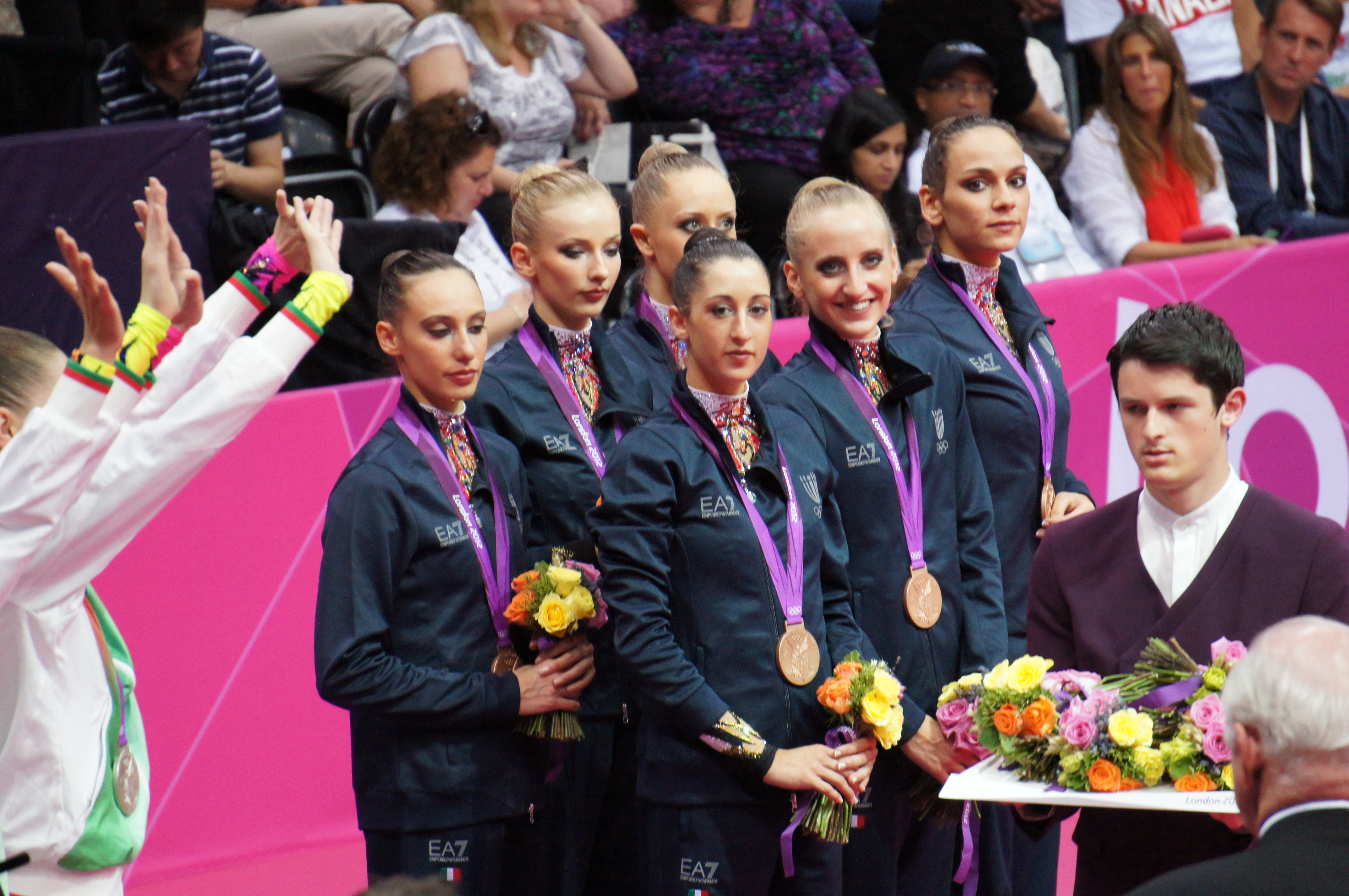 Rhythmic Gymnastics bronze medalists at the Olympic Games in London 2012.